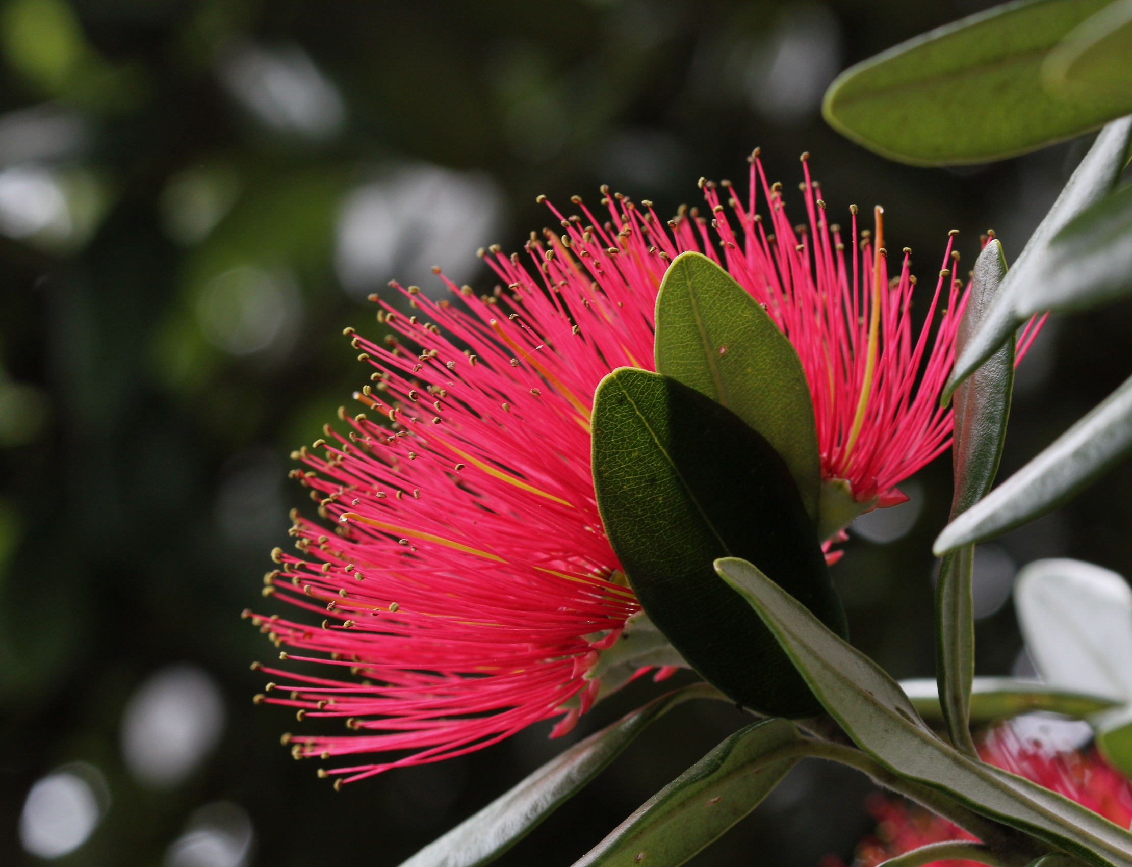 Pohutukawa flower (Metrosideros excelsa). Photo taken in Auckland, New Zealand.